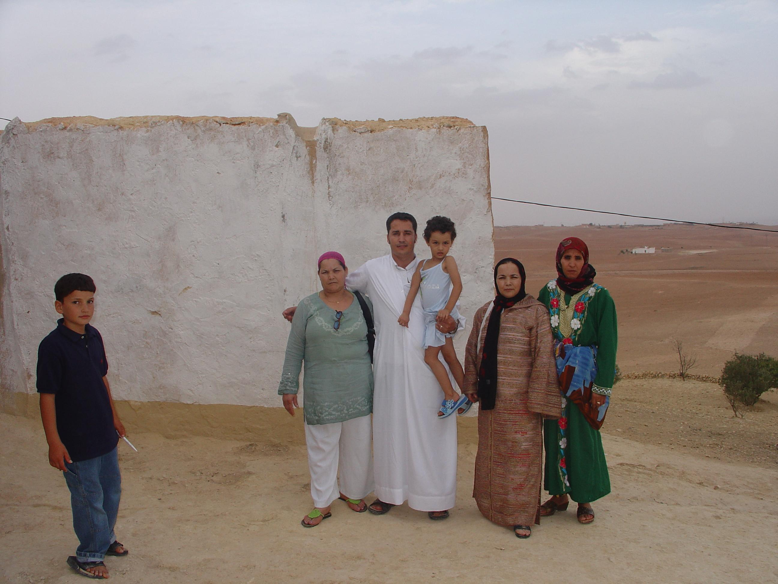 family of Chleuh (Suss) Berbers in Morocco (photo of 2003)